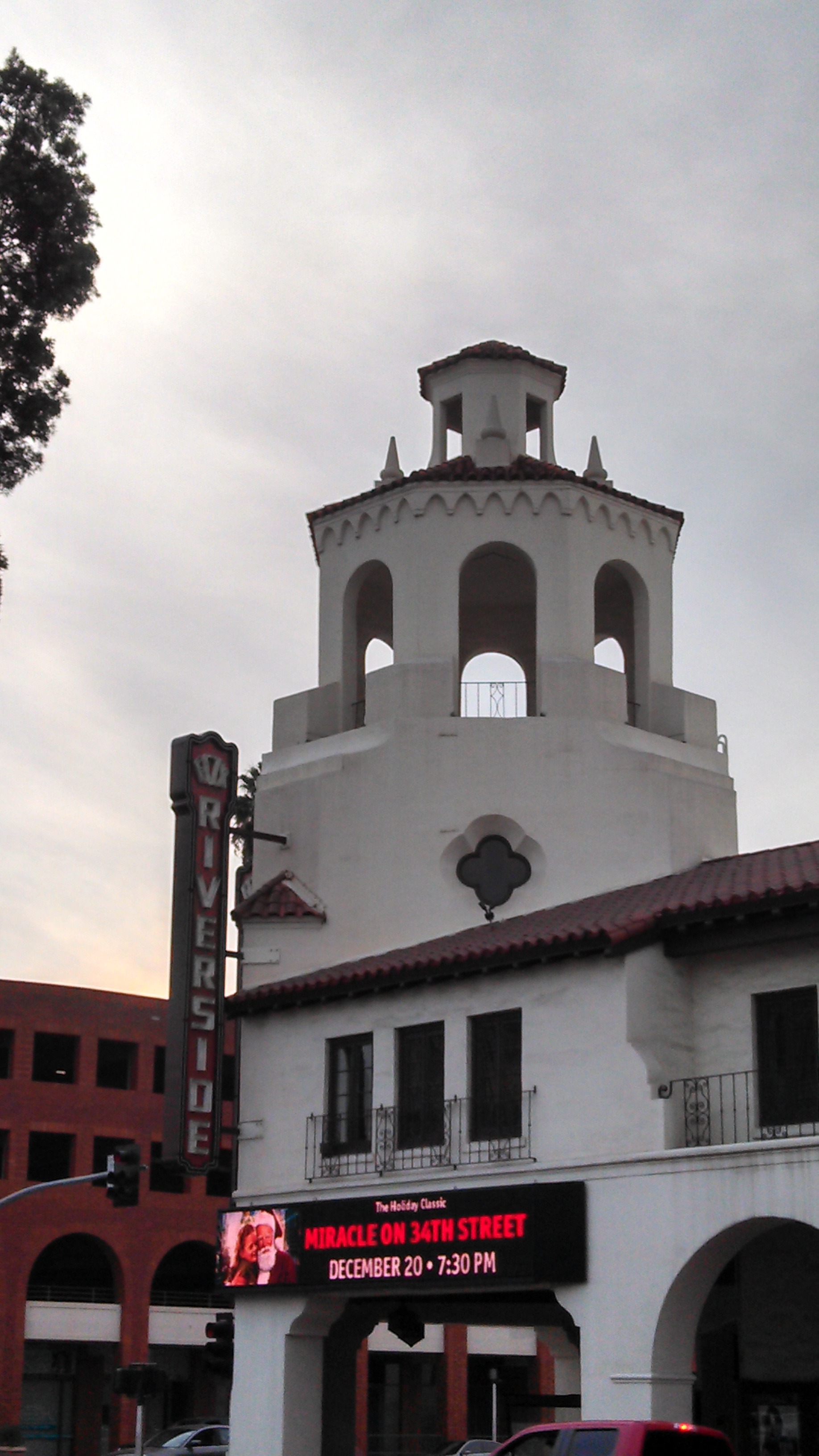 The Fox Performing Arts Center (or Fox Theater) in downtown Riverside, California. October 2013.